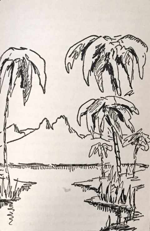 "The Young Nile", illustration by Hendrik Willem Van Loon for his book Ancient Man, 1922.